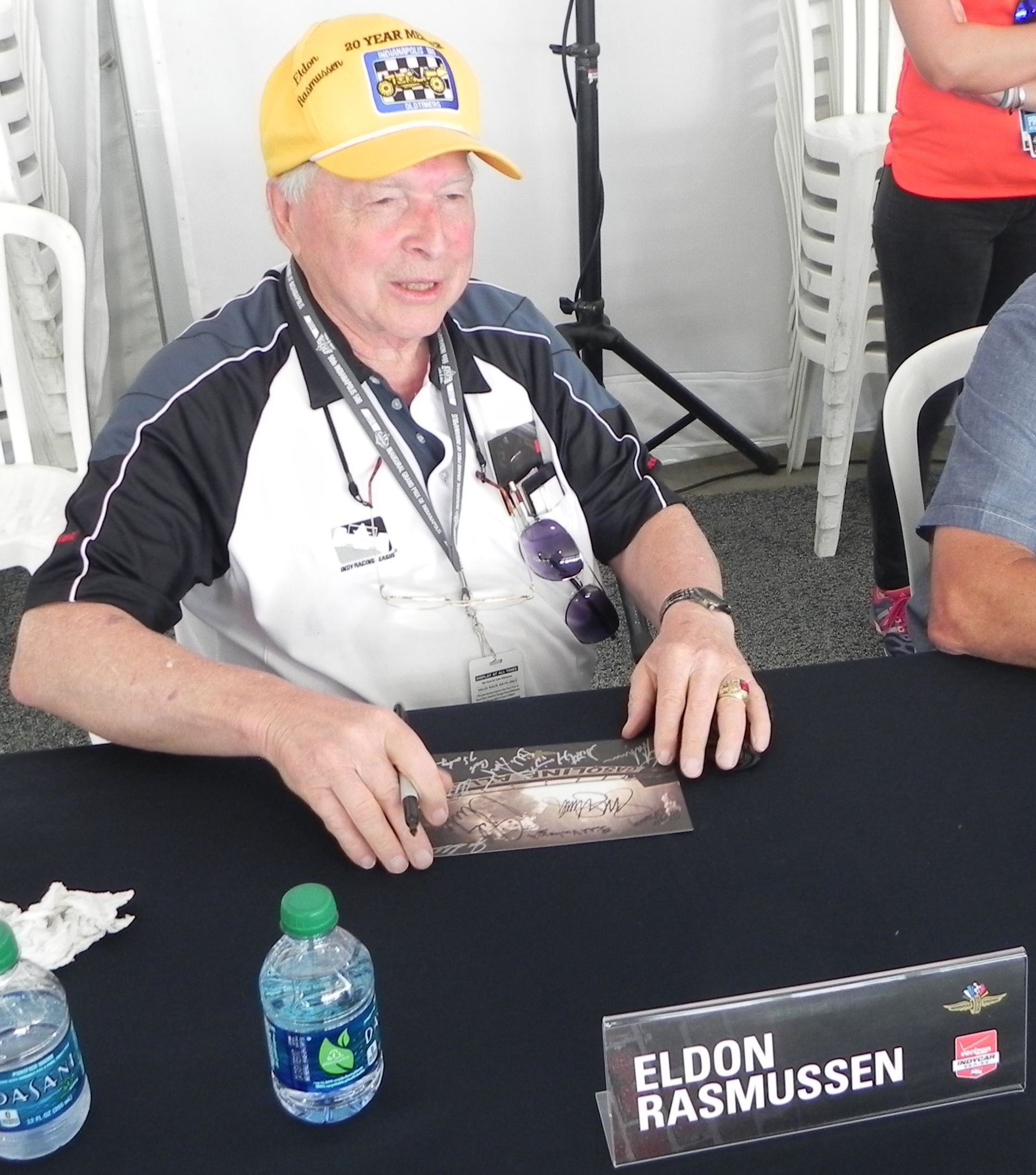 Indy500 driver Eldon Rassmussen at the 2014 Indianapolis 500.